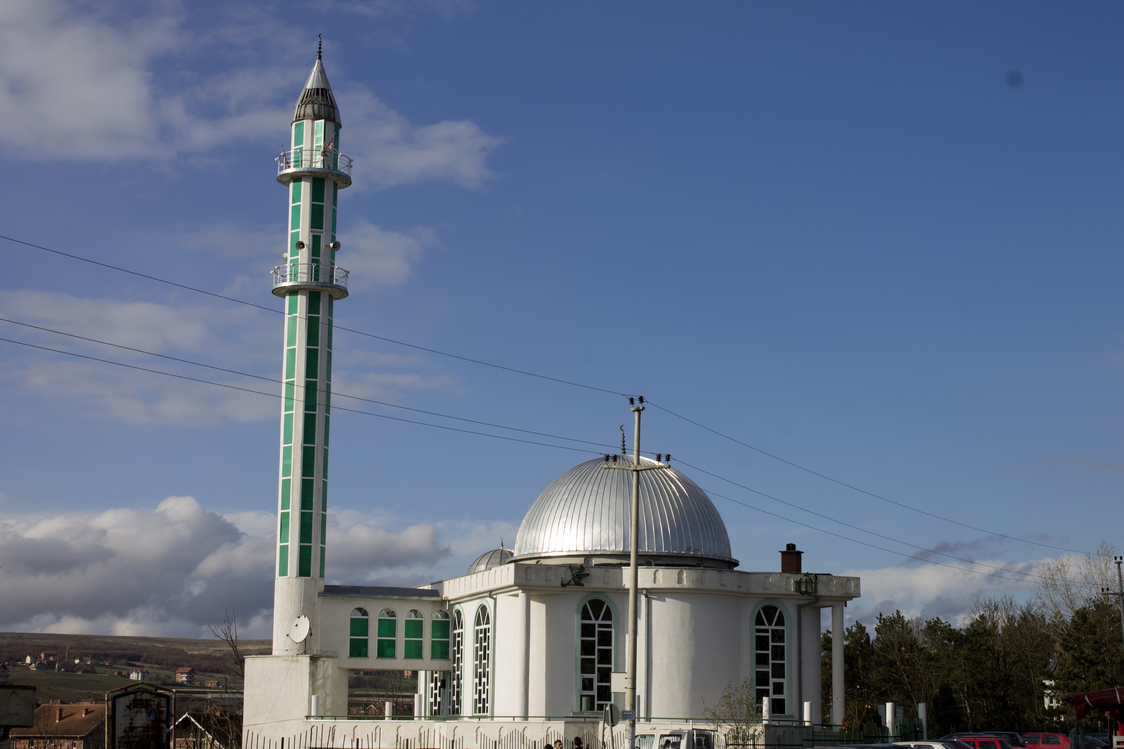 Xhamia ne Skenderaj